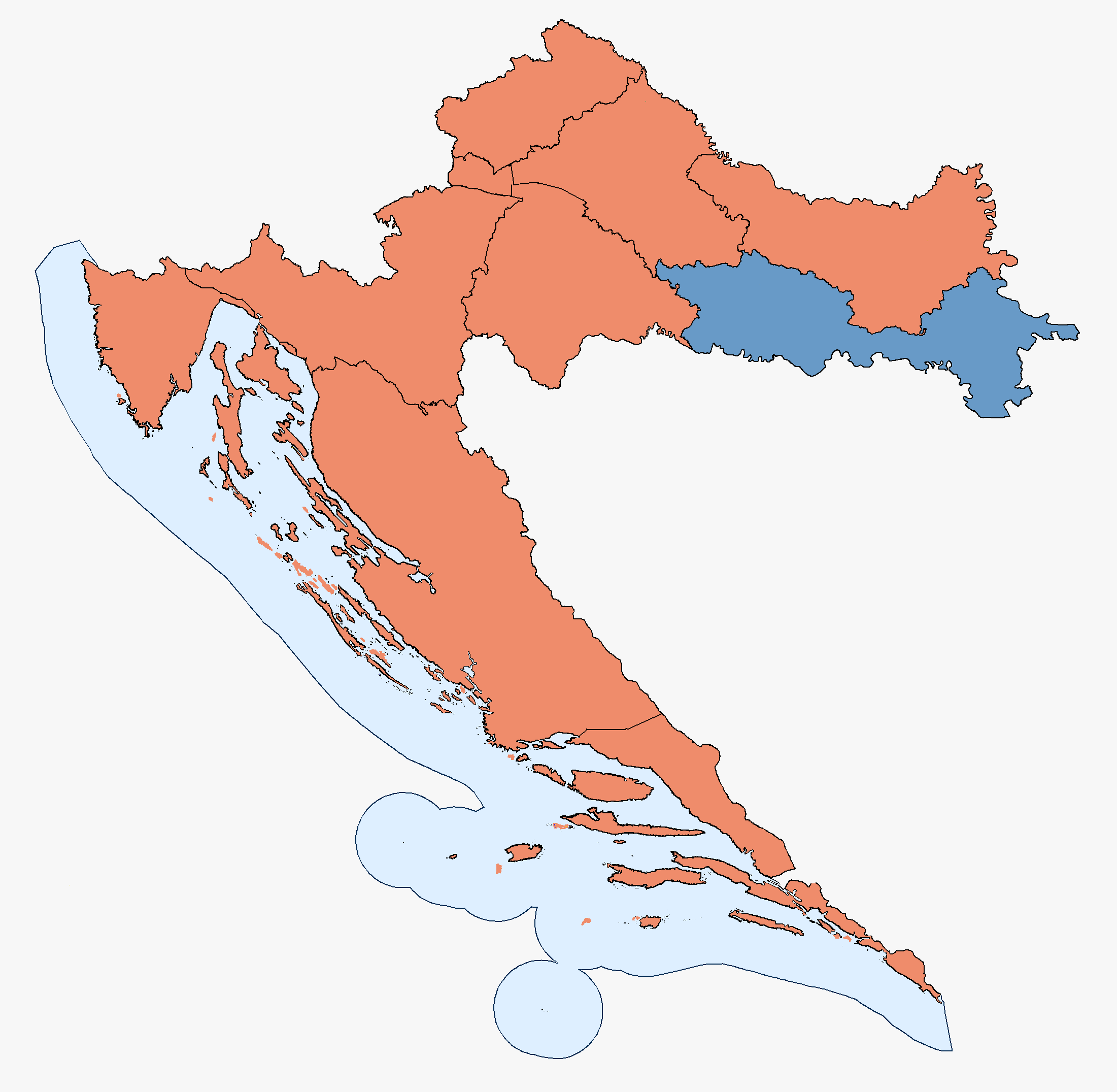 The results of the Croatian parliamentary election held on 3 January 2000, by electoral districts.